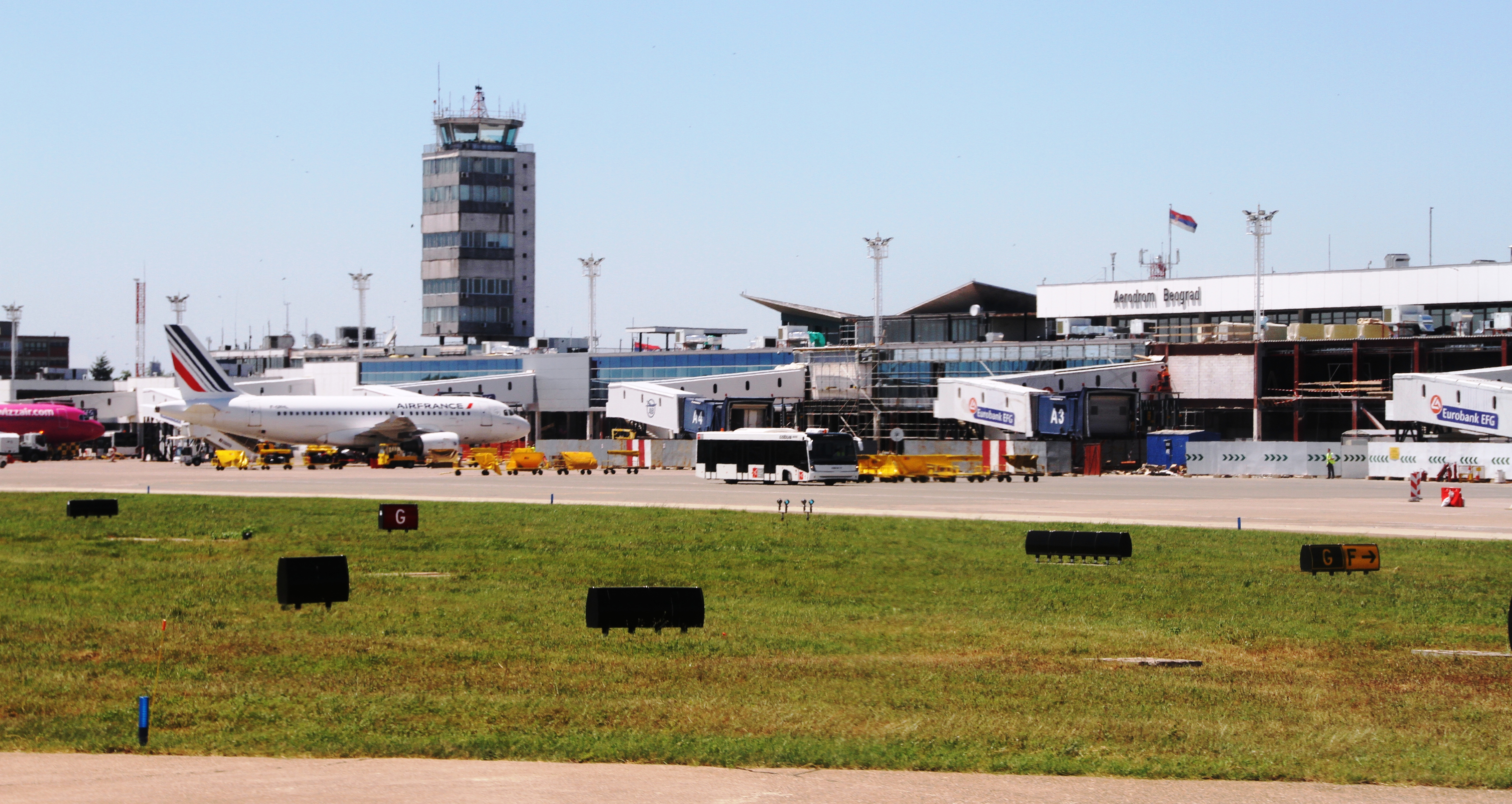 Nikola Tesla Airport in Beograd, Serbia.